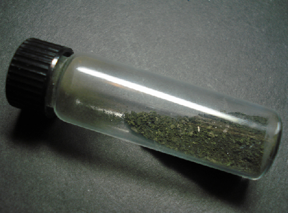 ~5g Uranium Tetrachloride, prepared by the photographer from Uranium metal. Photo was resized with Photoshop.